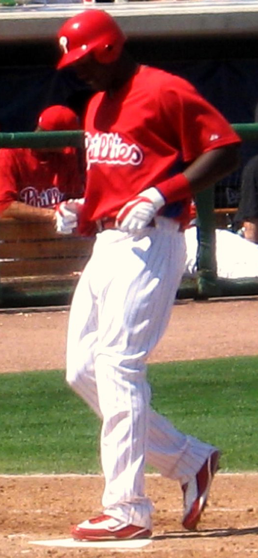 Description John Mayberry with the Philadelphia Phillies Date11 May 2009Source[1]AuthorFlickr user furnstein, cropped by KV5 (Talk • Phils)Permission (Reusing this file) CC-BY 21:44, 19 June 2009 . . Killervogel5 . . 528×1,141 (410 KB) John Mayberry with the Philadelphia Phillies